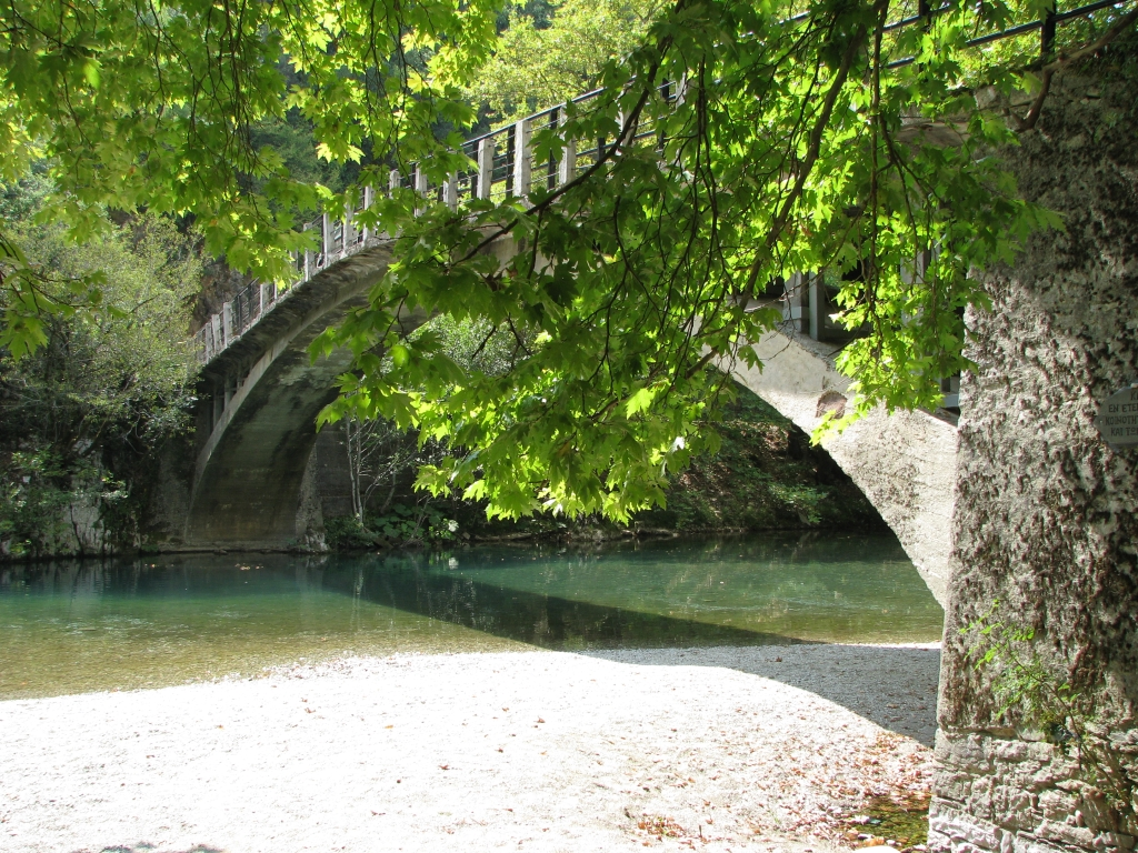 Voidomatis bridge on the way to Papigo